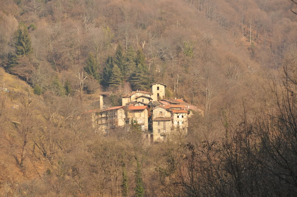 Panorama of Nesorio village, near Erve, on the border between provinces Lecce and Bergamo.